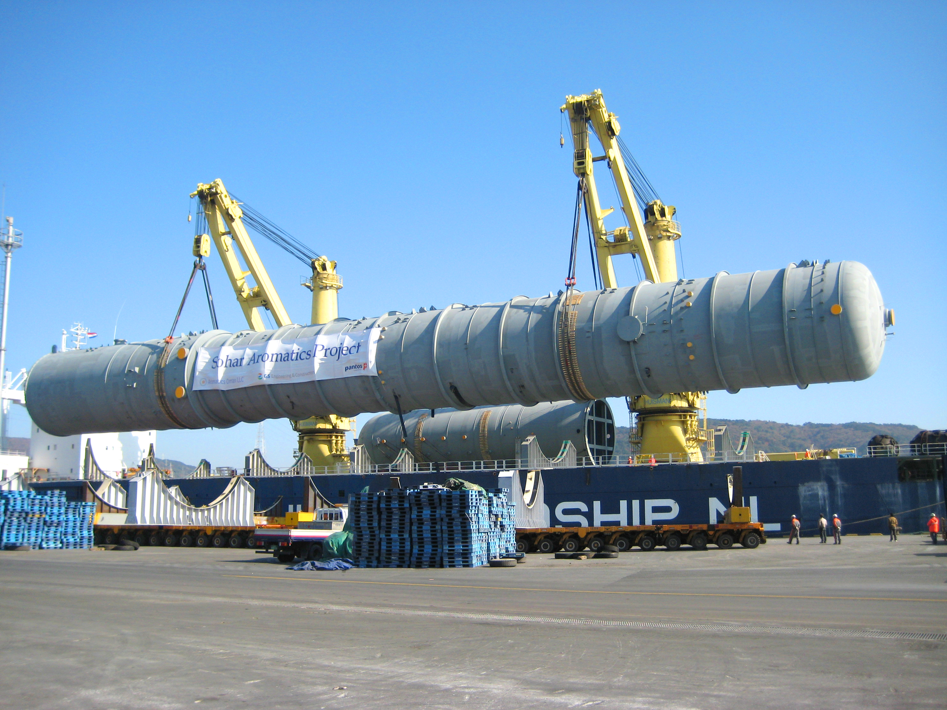 Pantos Logistics - Cargo Petrochemical project